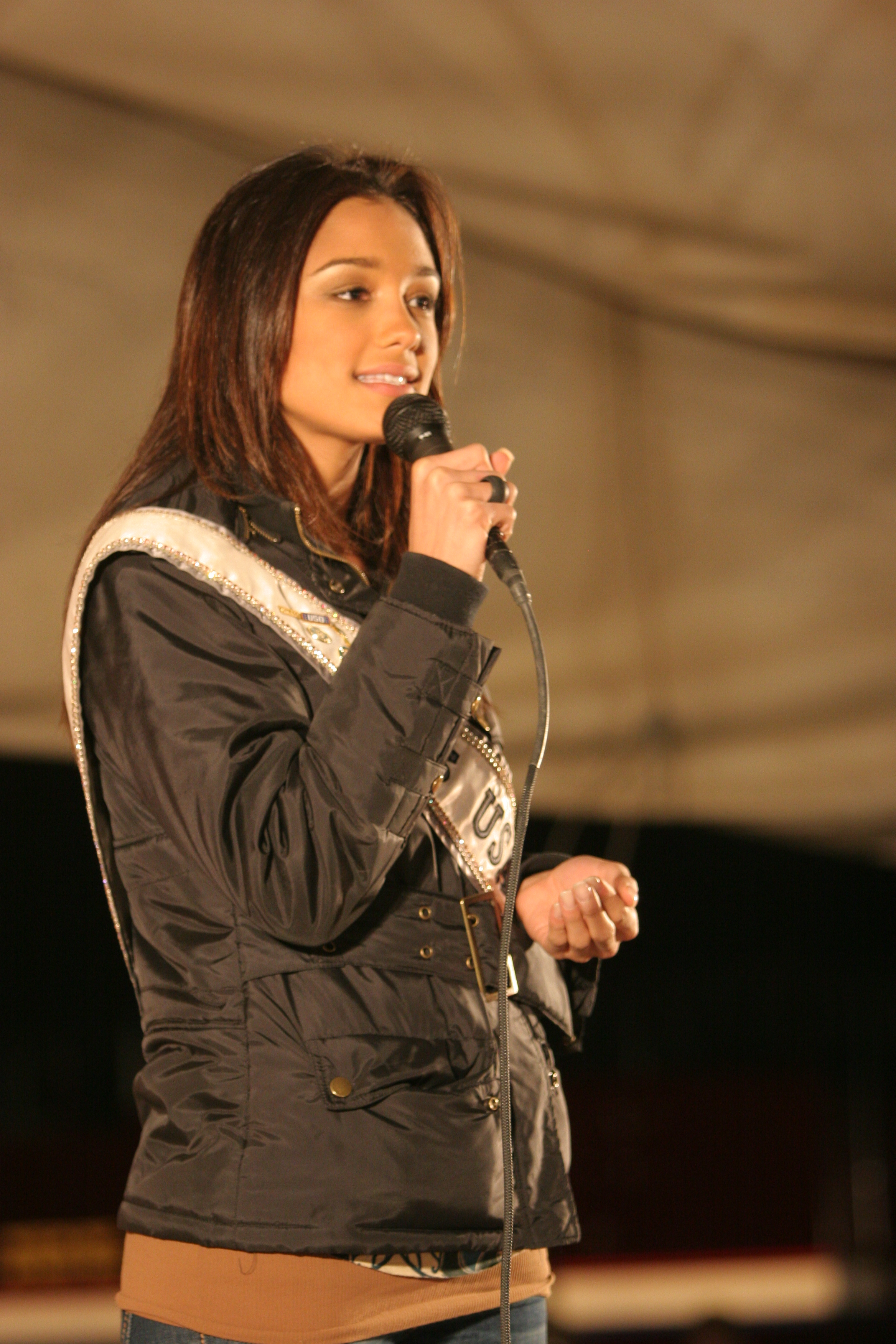 Miss USA Rachel Smith speaks to U.S. servicemembers as part of a United Service Organization tour here Dec. 18. Smith, along with Robin Williams, Lewis Black, Miss USA Rachel Smith, Kid Rock and Lance Armstrong, came to visit troops during the holiday season. The celebrities will continue their tour throughout the season making additional stops in Iraq and Afghanistan.